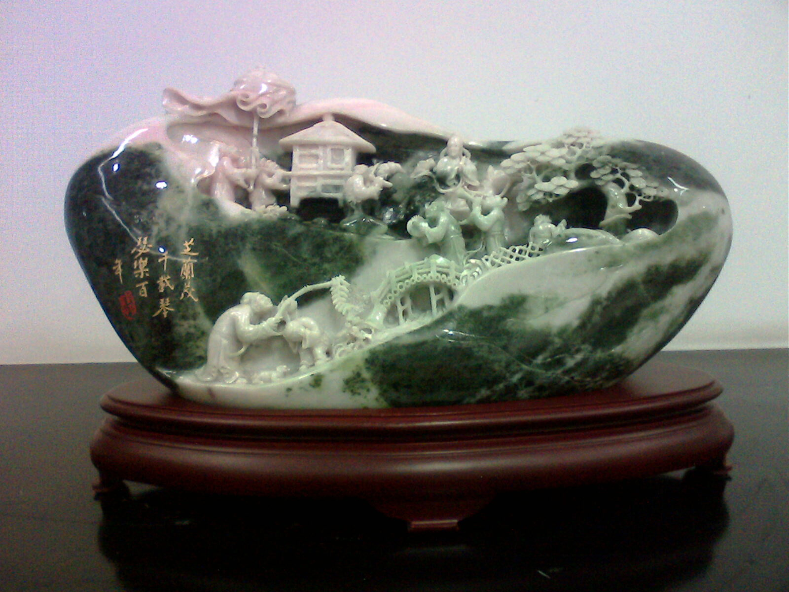 Chinese Dushan Jade Sculpture art carving from central China